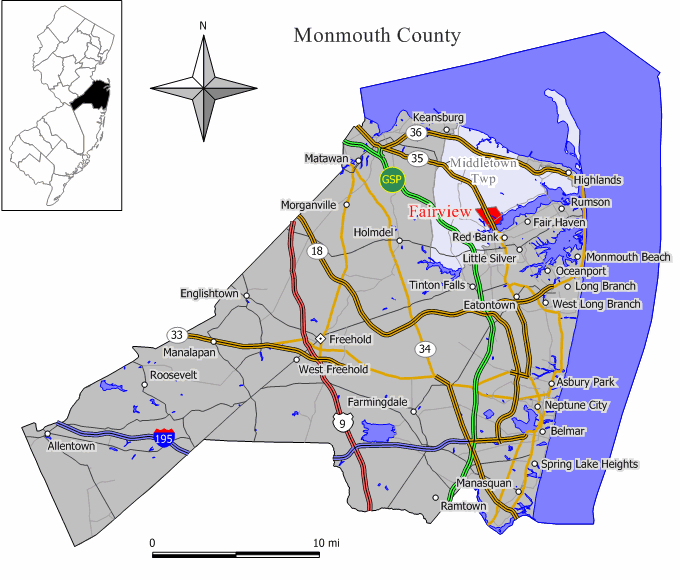 Source: Jim Irwin Original work by Jim Irwin, December 2005.